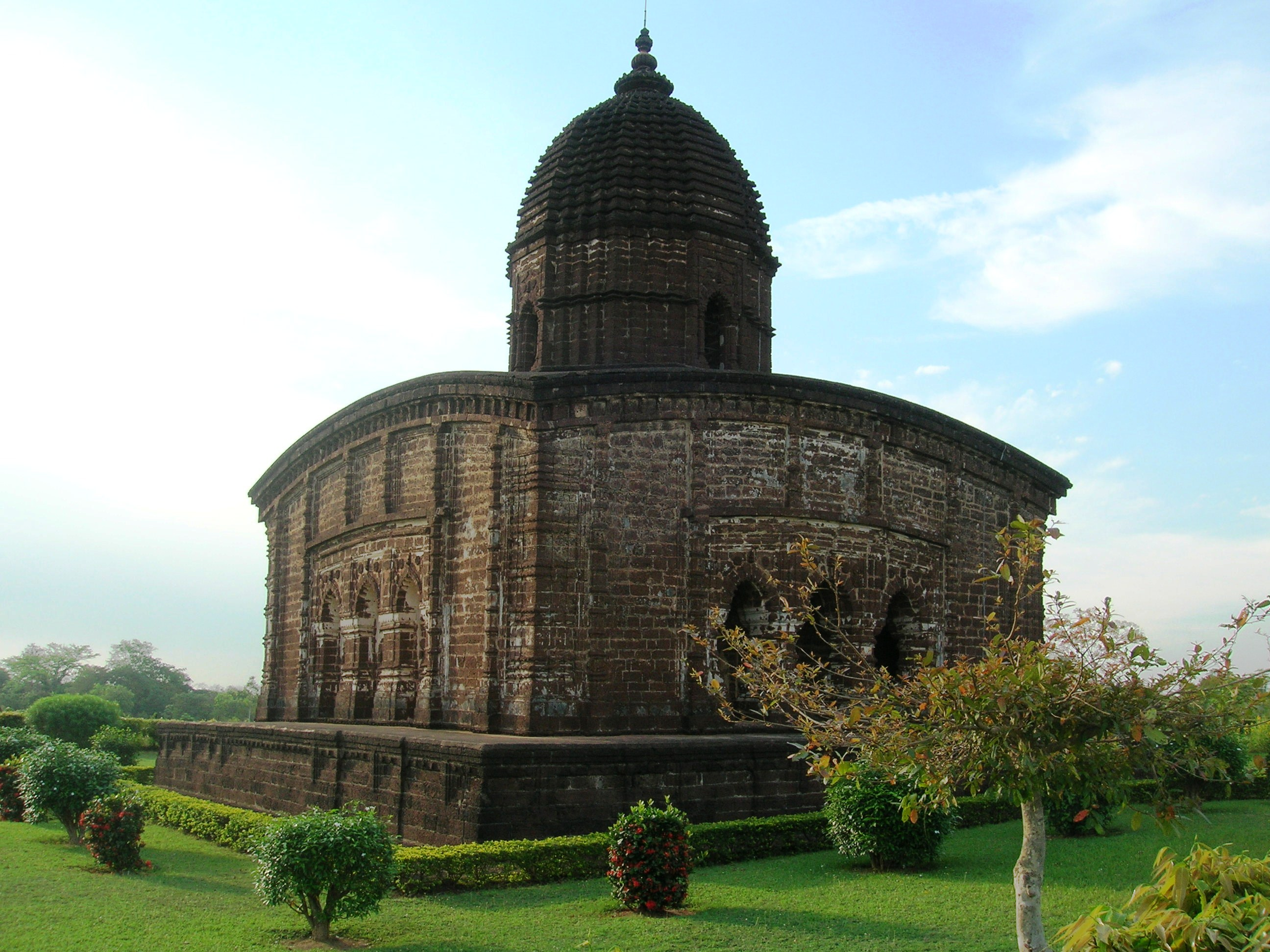 Jor Mandir complex (c. 1726), Bishnupur, Bankura dist., West Bengal, India.